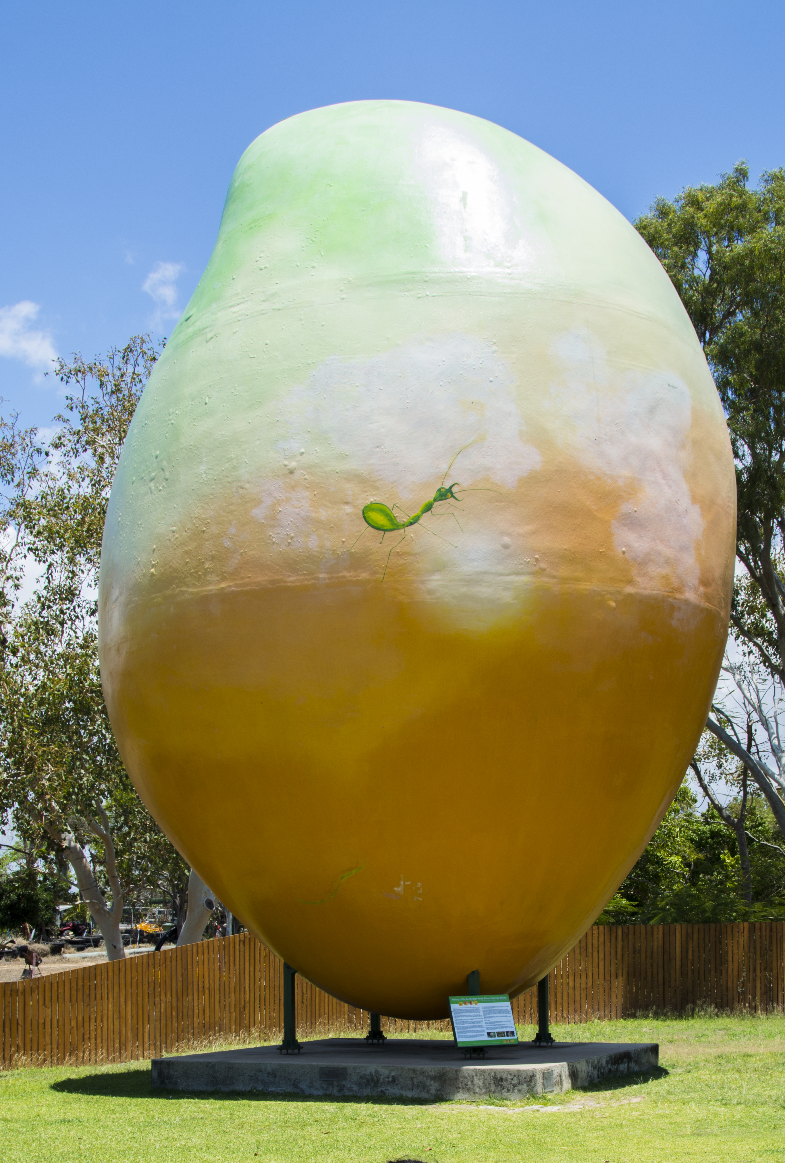 Big Mango at Bowen Queensland Australia.